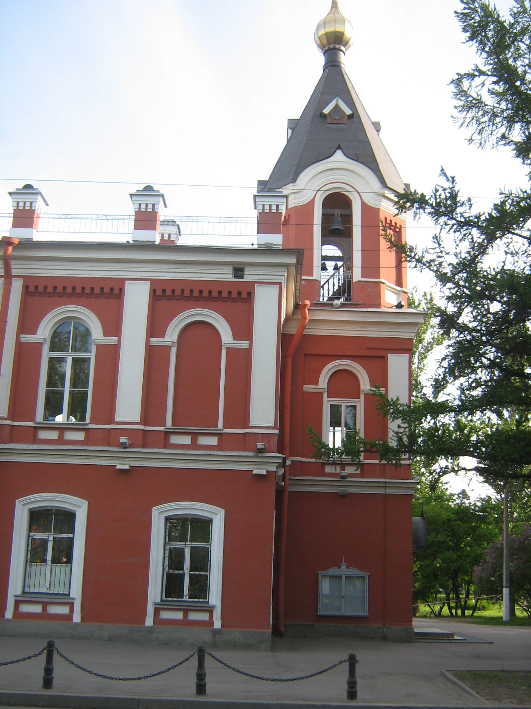 Kolpino (Russia)